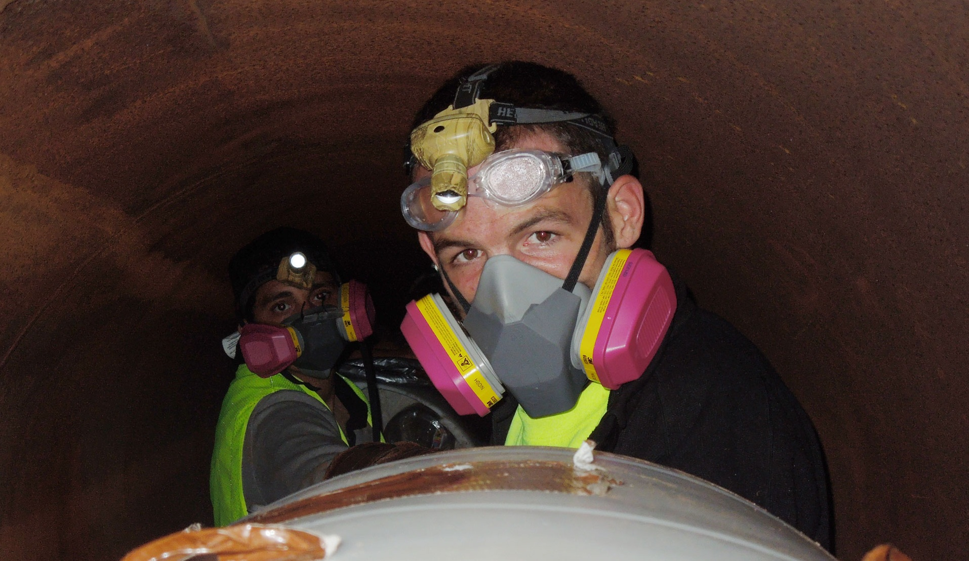 Glen Collins and Matt Almonte are wearing face masks to protest the poisonous tar sands that will be passing through the pipe if the KXL is completed. They barricaded themselves inside a portion of the pipeline in Winona, Texas as part of a protest. They were later arrested.